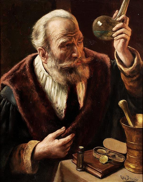 The Alchemist